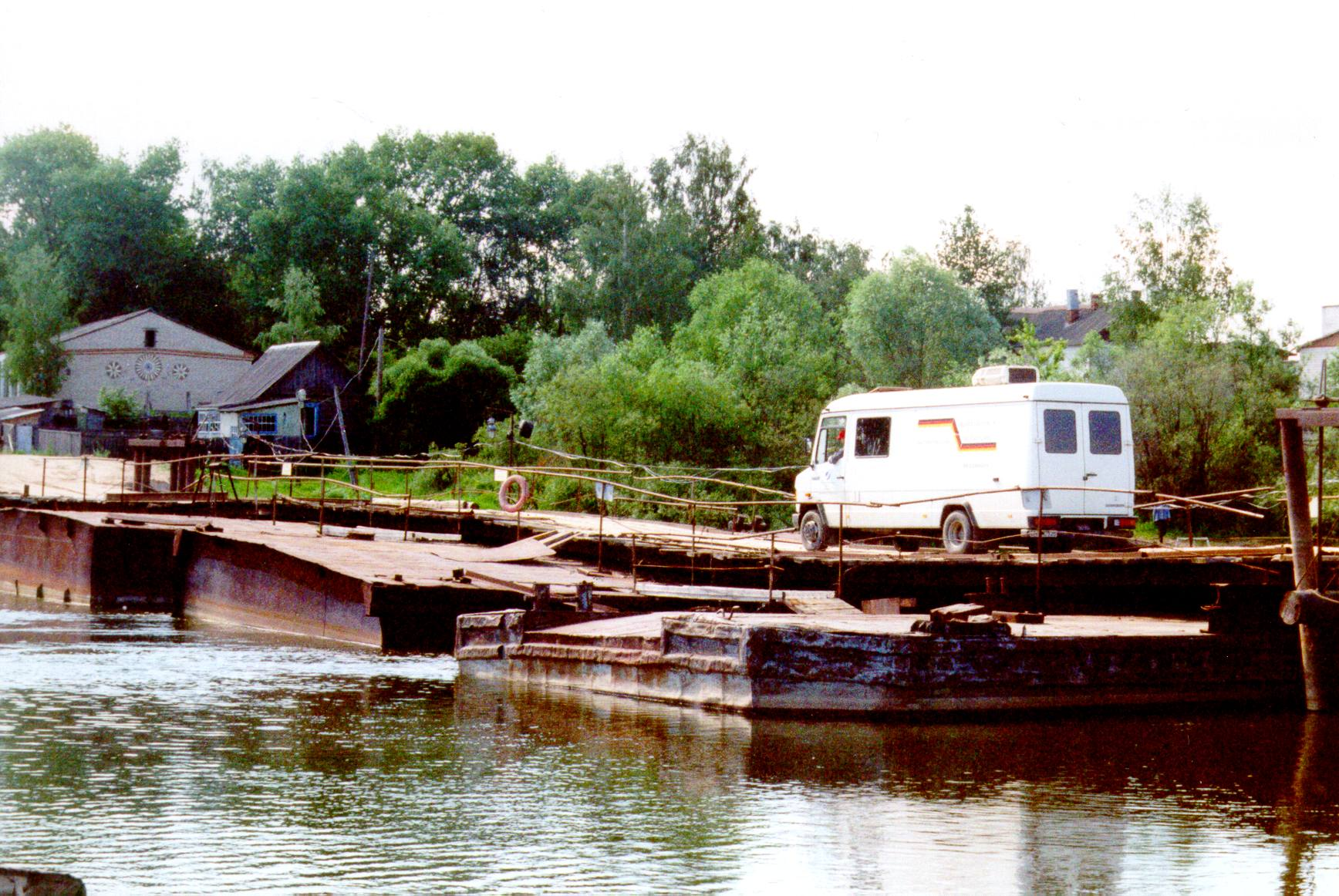 Author: Herbert Dederichs, Burkhard Heuel-Fabianek (Research Center Juelich (S)) Url: subject: old pontoon-bridge (before 2003) over the river Soz (Сож) in eastern Belarus close between City of Korma (Karma) and Volincy